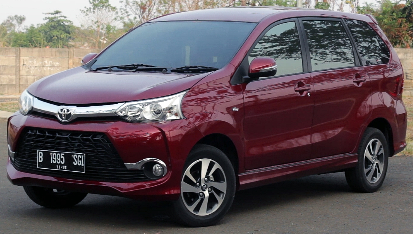 The 2015 Toyota Avanza Veloz in maroon red.